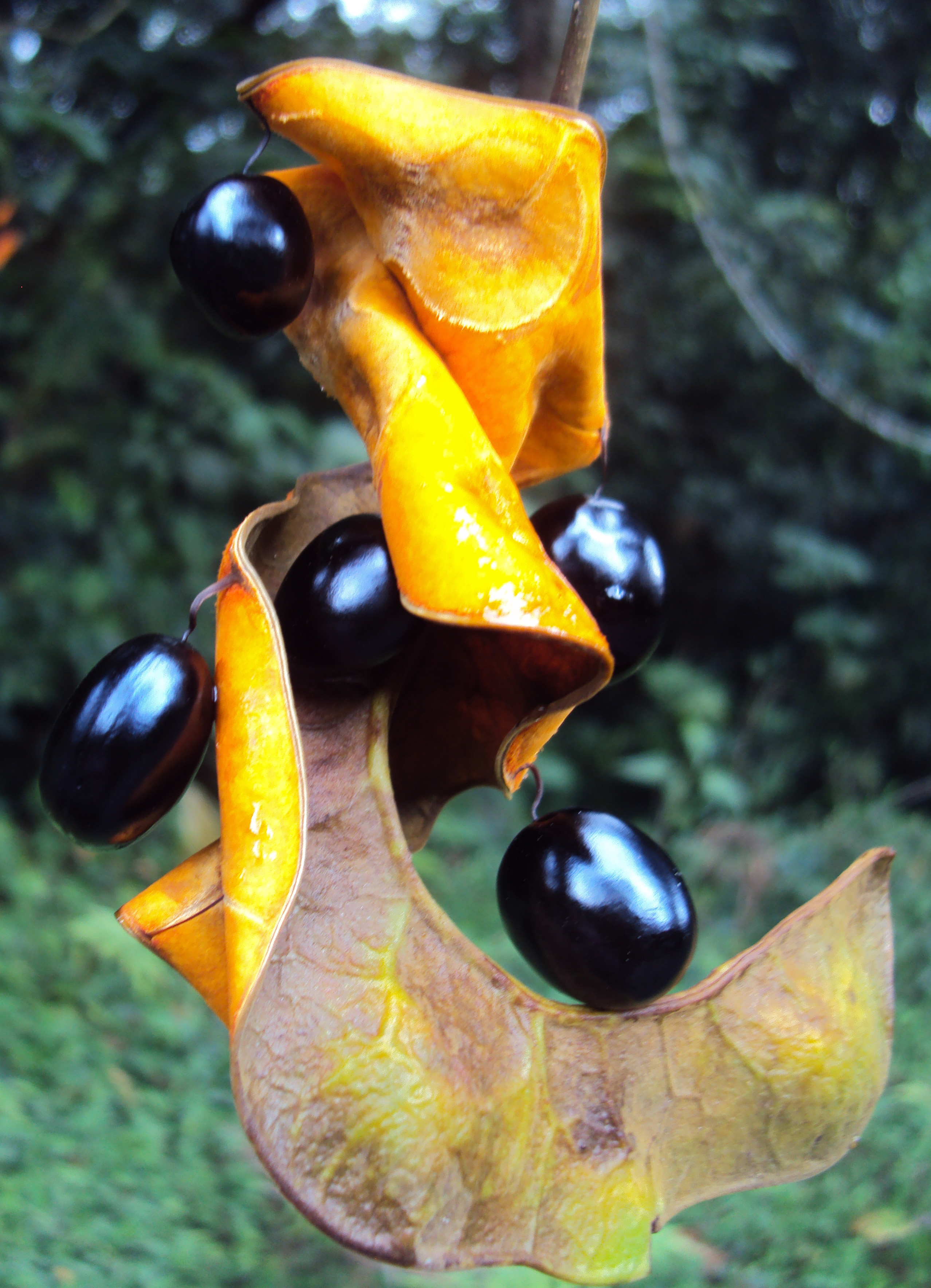 Archidendron bigeminum